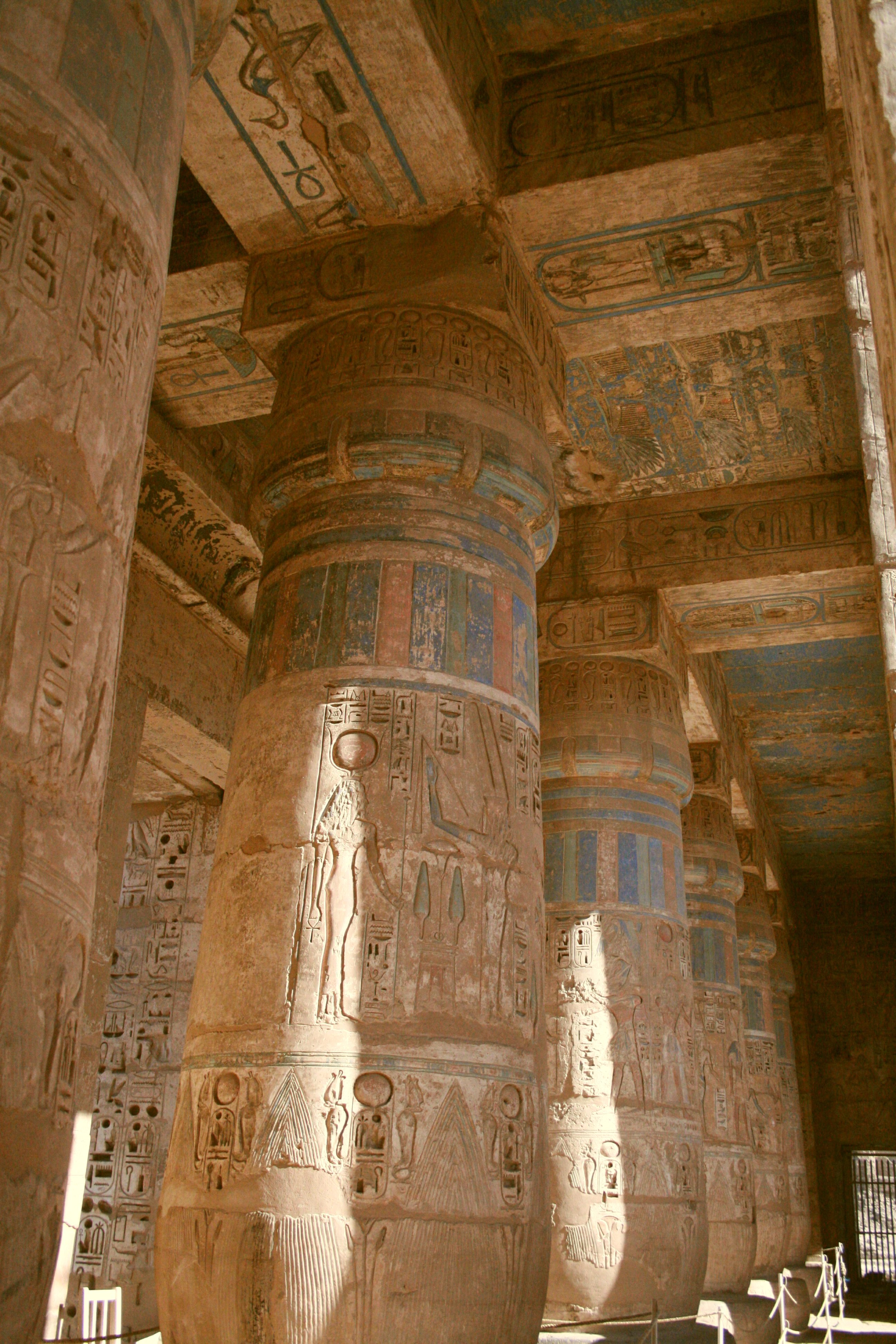 Mortuary Temple of Rameses III - Medinet Habu